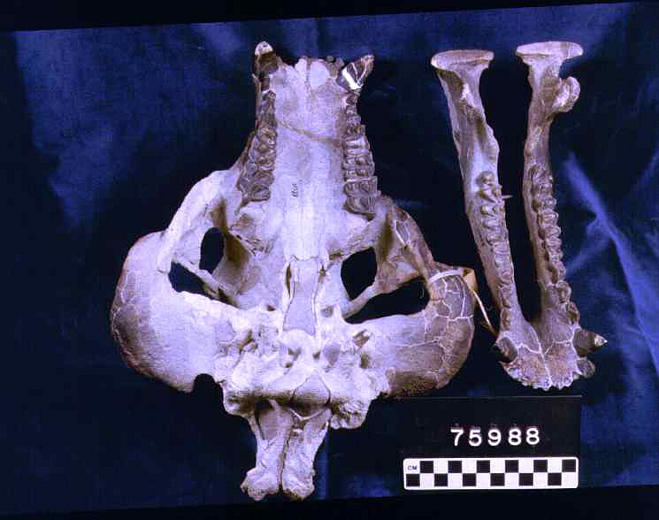 Merycochoerus superbus (jr synonym= Promerycochoerus superbus) skull and jaw, University of California Museum of Paleontology